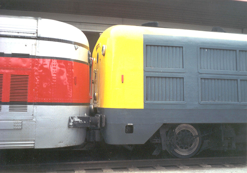 Talgo III in Irún (Spain)